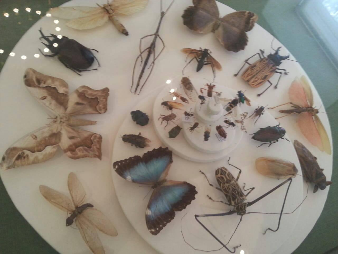 Insect Collection at Museu Nacional do Rio de Janeiro